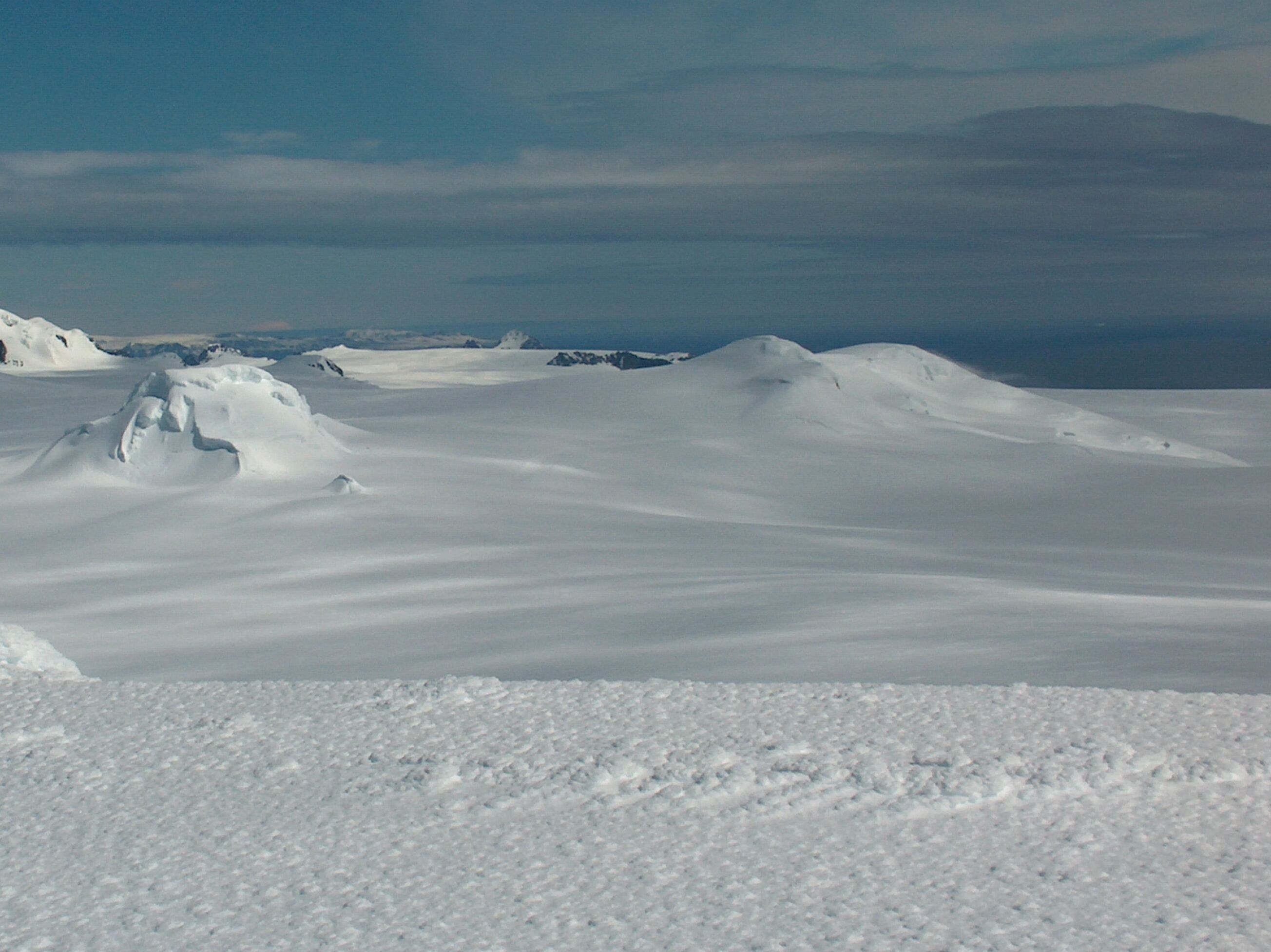 Description: Leslie Hill and Gleaner Heights from Miziya Peak in Vidin Heights, Livingston Island, with Hurd Peninsula and Deception Island in the background.